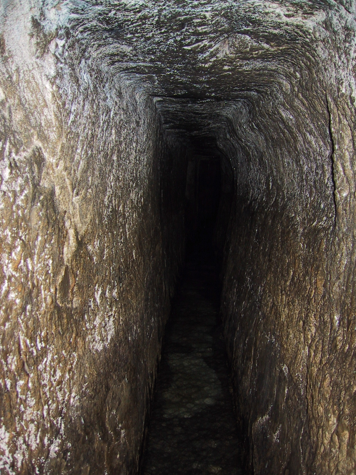 we then entered hezekiah's tunnel from the gihon spring and then walked all the way through to the other side to get to the pool of siloam. hezekiah built this tunnel to bring water into the city from the gihon spring when the southern kingdom of judah was being attacked by assyria.